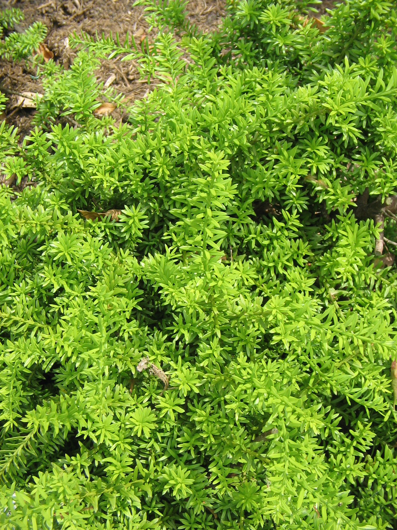 Podocarpus nivalis